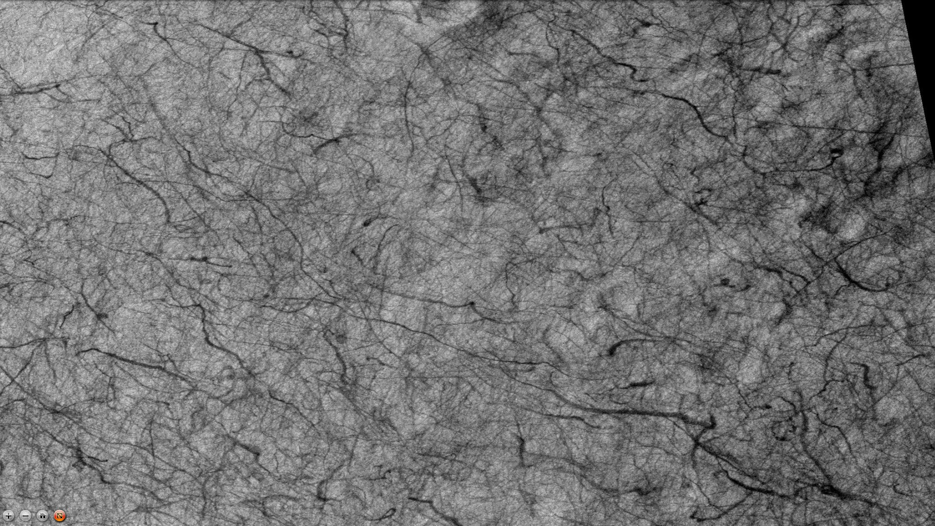 Dust devil tracks on Wallace Crater floor, as seen by CTX